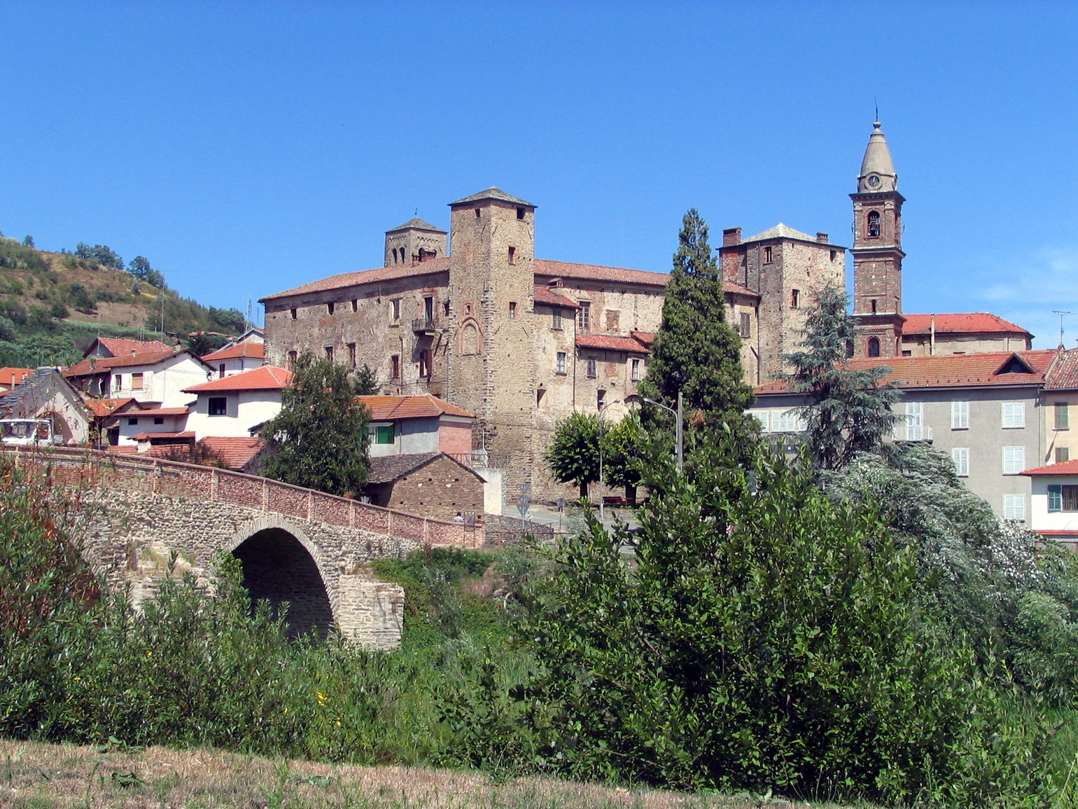 Monastero Bormida, a municipality in the Province of Asti, Liguria, Italy.